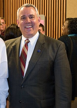 City of Boise Mayor Dave Bieter